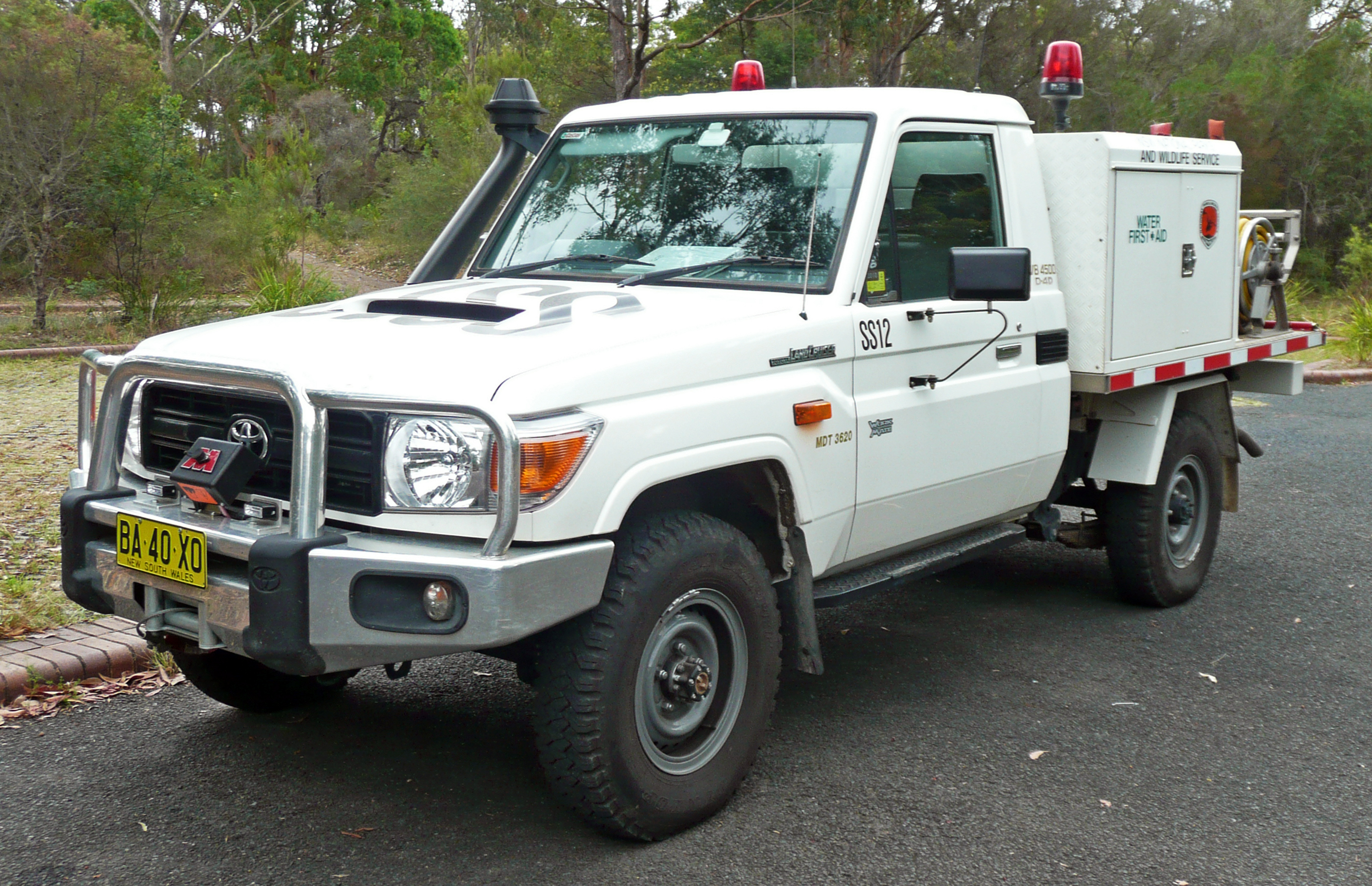 2009 Toyota Land Cruiser (VDJ79R) WorkMate 2-door cab chassis, National Parks and Wildlife Service. Photographed in Audley, New South Wales, Australia.